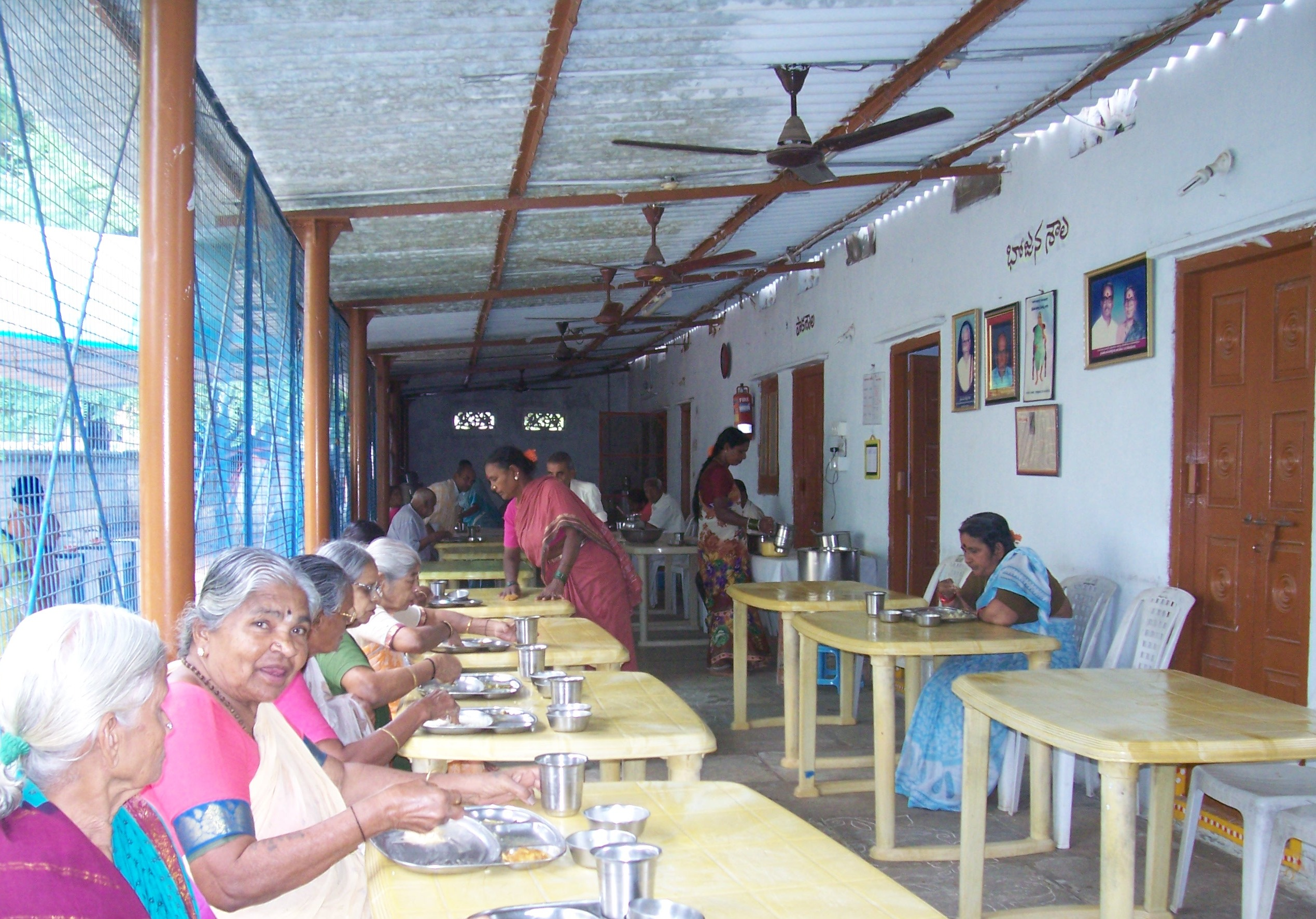 anaadaasramamu